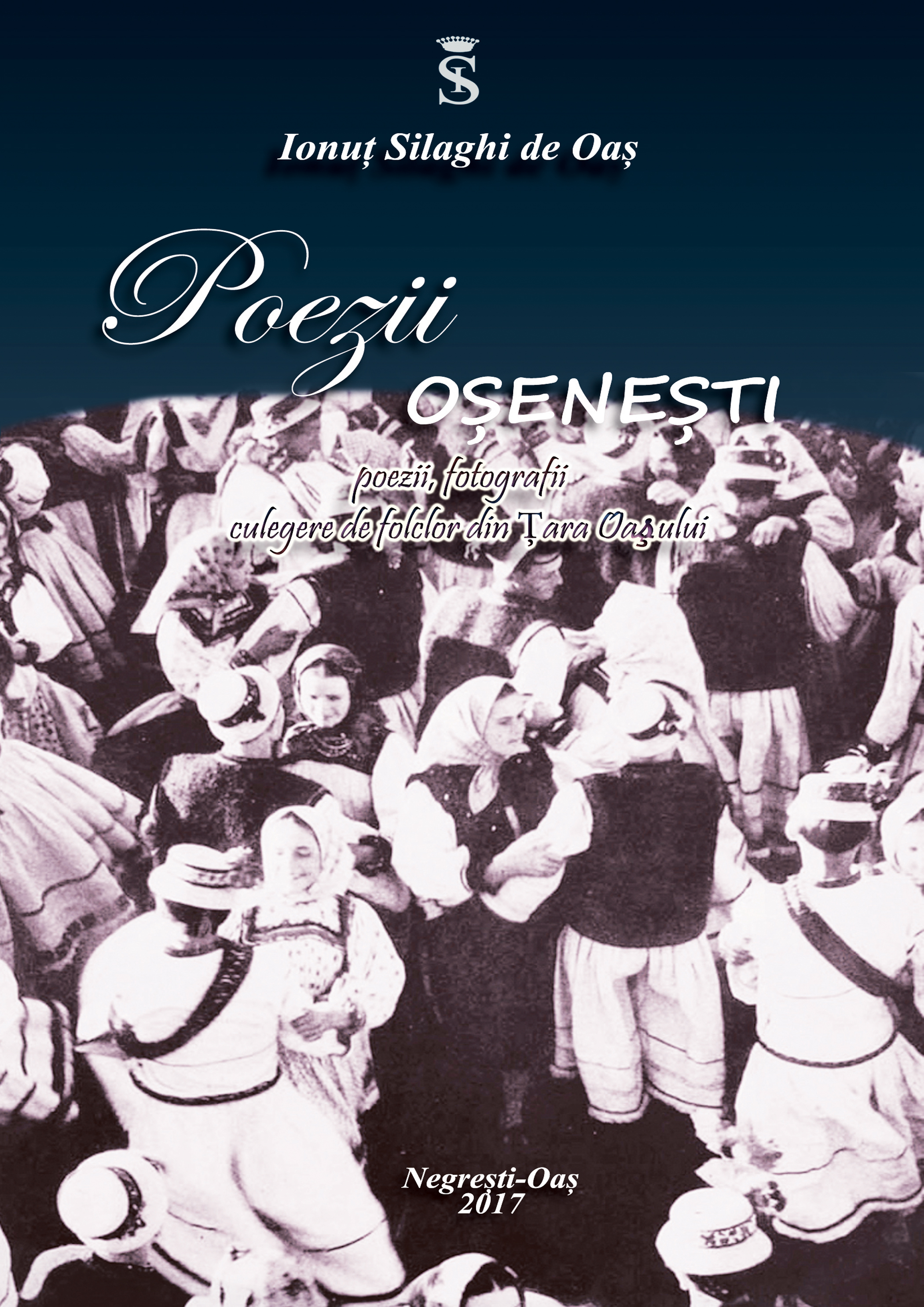 This is the front cover art for the book Poezii oșenești: Poetry, Photography, Folklore collection from Oaş Country (2017) by Ionuţ Silaghi de Oaş, ISBN 9789730246810, ISBN-10: 973-0-24681-5.